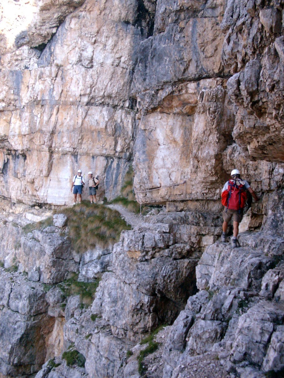 Mountain "Monte Pelmo": "Ball ledge"